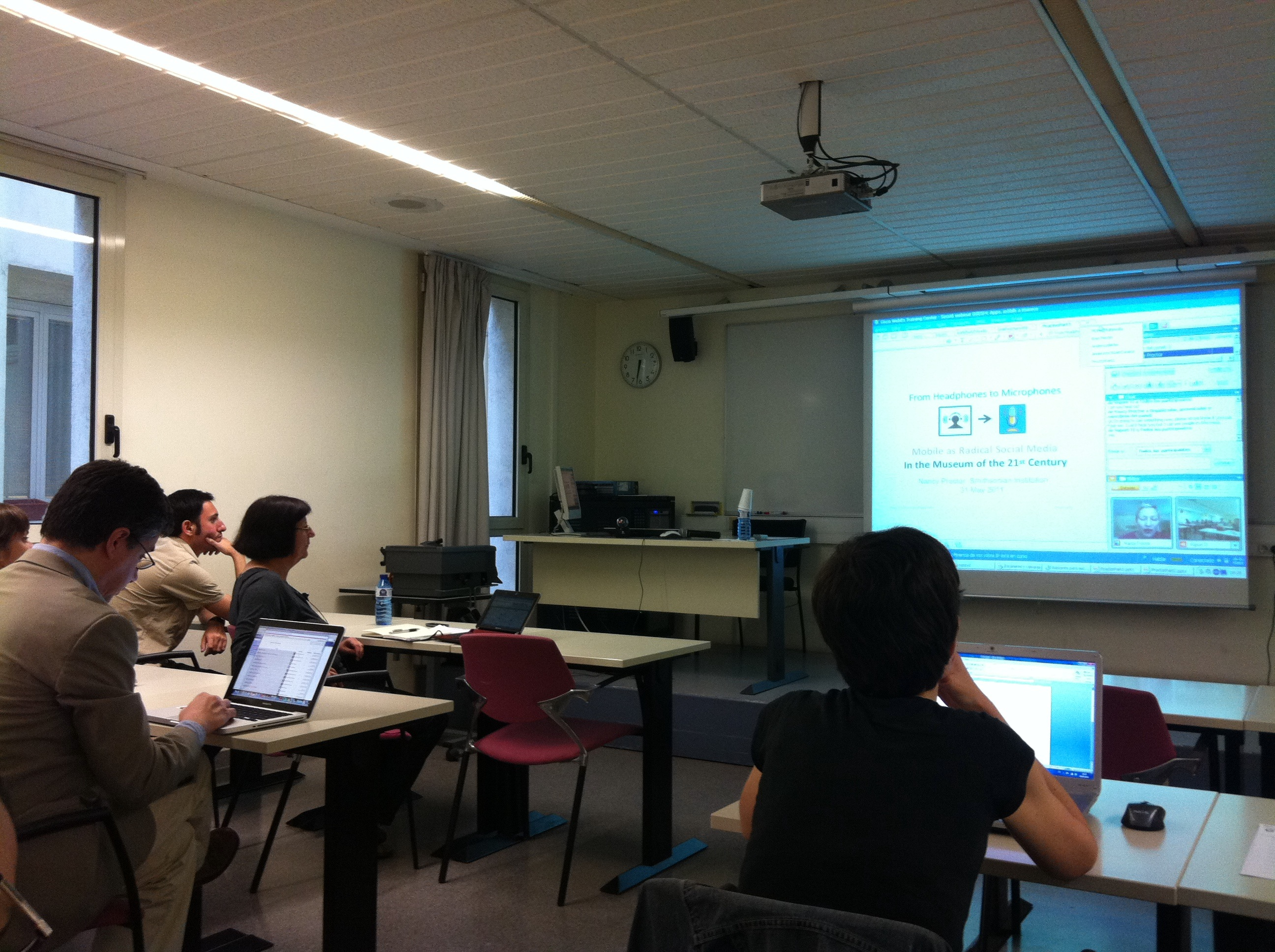 Postgrau gestió museística- webinar with Nancy Proctor